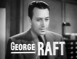 Screenshot of George Raft from the trailer for the film Invisible Stripes.